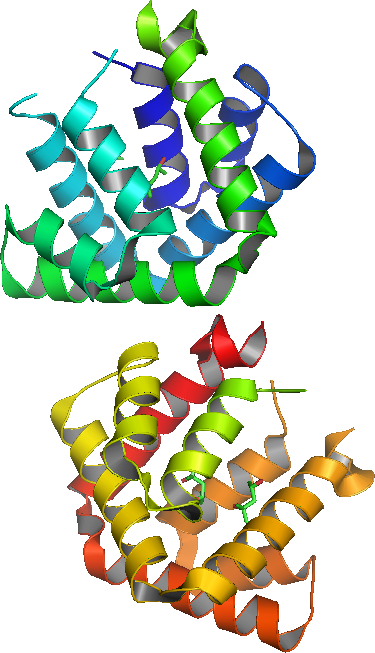 I made this rendering myself, using the PDB structure 1PUO.